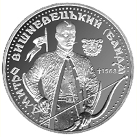 Commemorative Ukrainian hryvnia coin depicting Dmytro Vyshnevetsky, a Ukrainian Cossack.